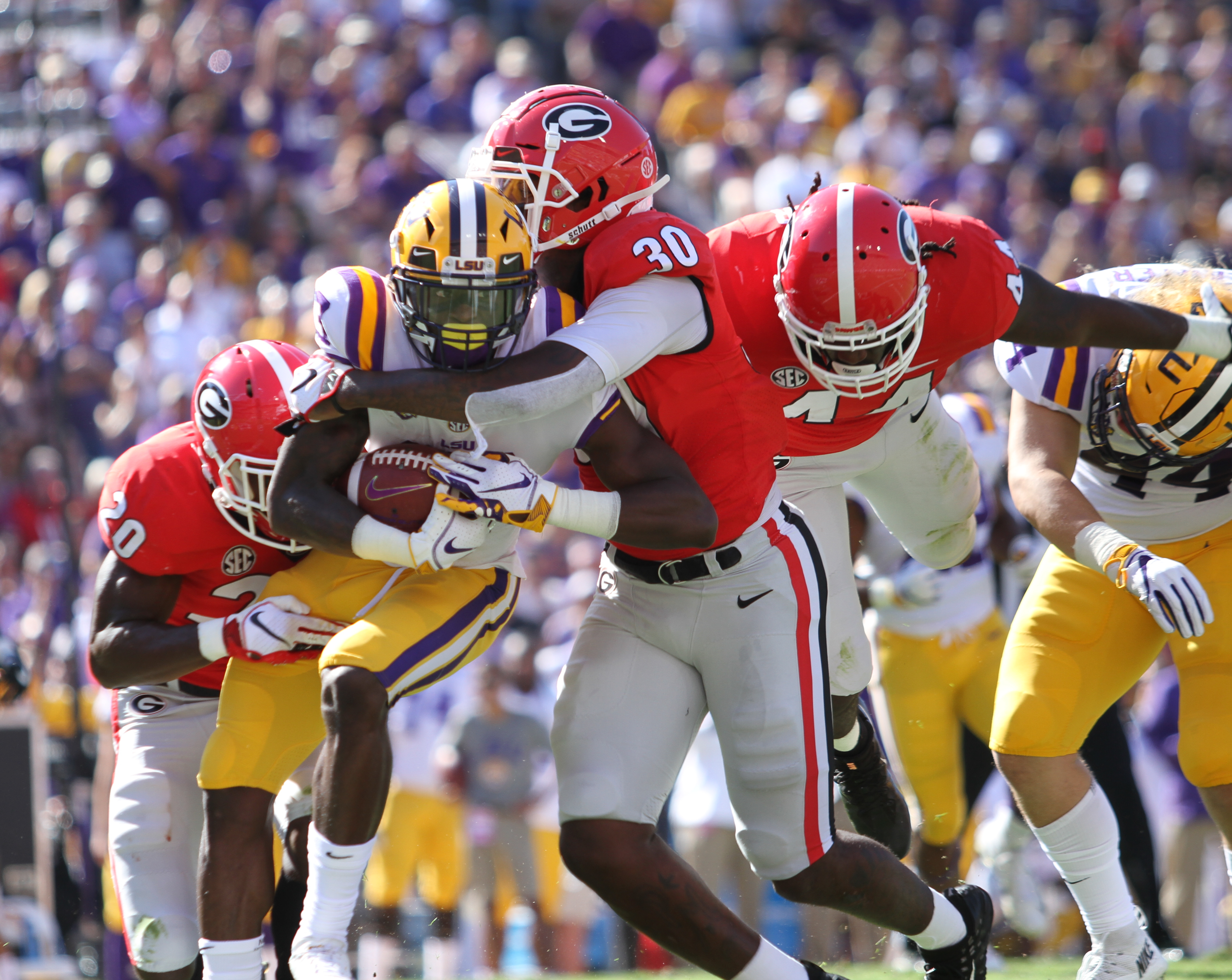 LSU Tigers running back Clyde Edwards-Helaire (22) and LSU Tigers fullback Tory Carter (44), Georgia Bulldogs linebacker Tae Crowder (30) and linebacker Juwan Taylor (44), Georgia Bulldogs vs LSU Tigers, Football, Tiger Stadium, October 13, 2018, Baton Rouge, Louisiana, Tammy Anthony Baker, Photographer